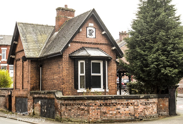 Gorton Hall Lodge